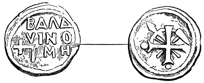 Coin Baldwin I as count Edessa